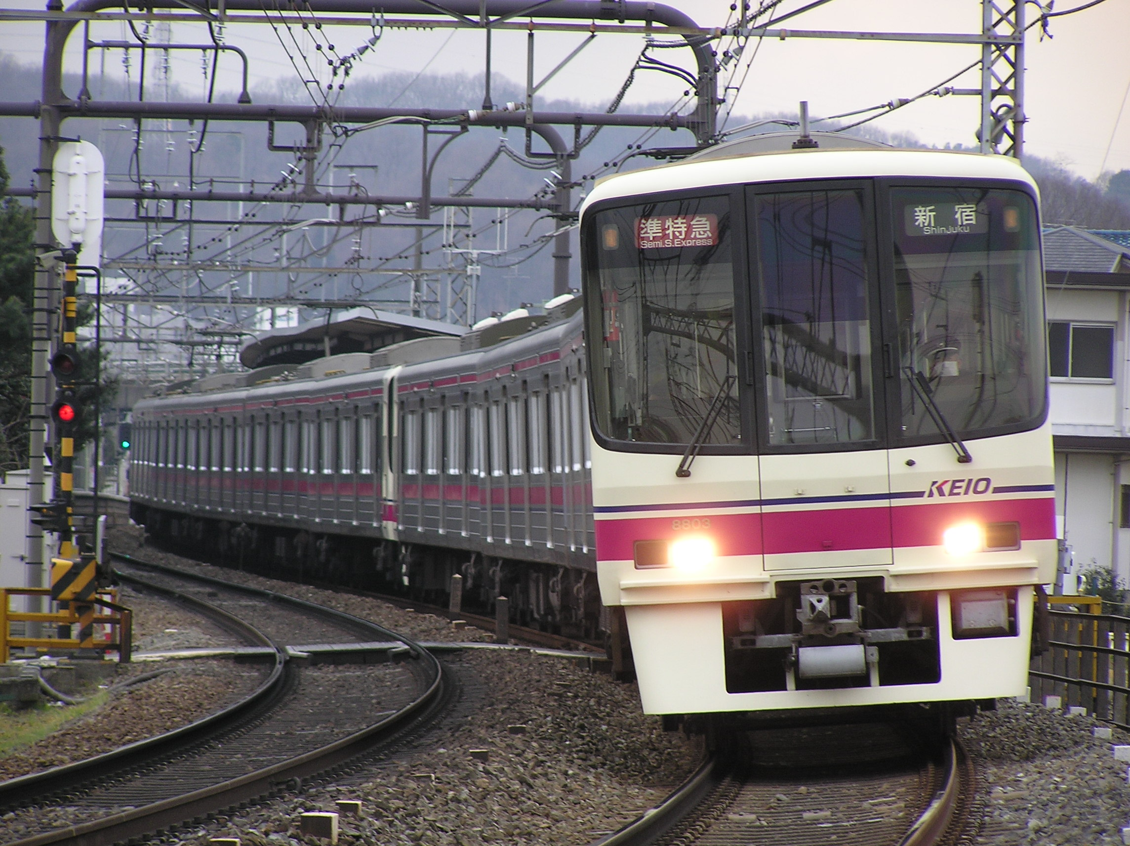 撮影地 Place of photo平山城址公園～南平撮影の状況 How to take公道から撮影 At public roadトリミングの有無 Cropped or not非トリミング Not Cropped内容 Description京王8000系8803F Keiō 8000 series